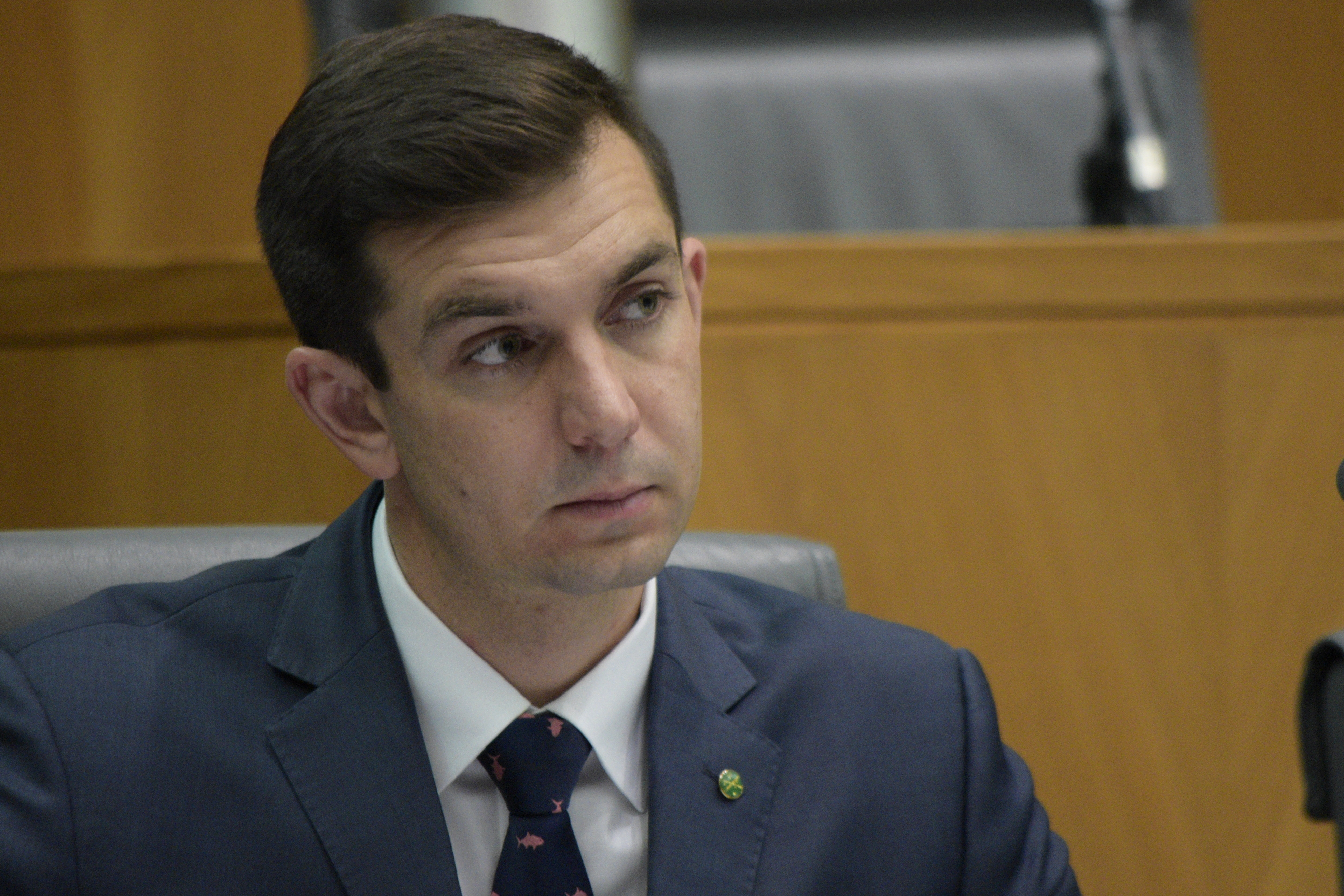 Trevor Evans MP as part of the House Standing Committee on Economics on October 6, 2016